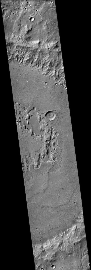 Millochau Crater, as seen by ctx